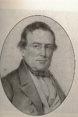 A portrait of Benjamin Franklin Bache as a young man.